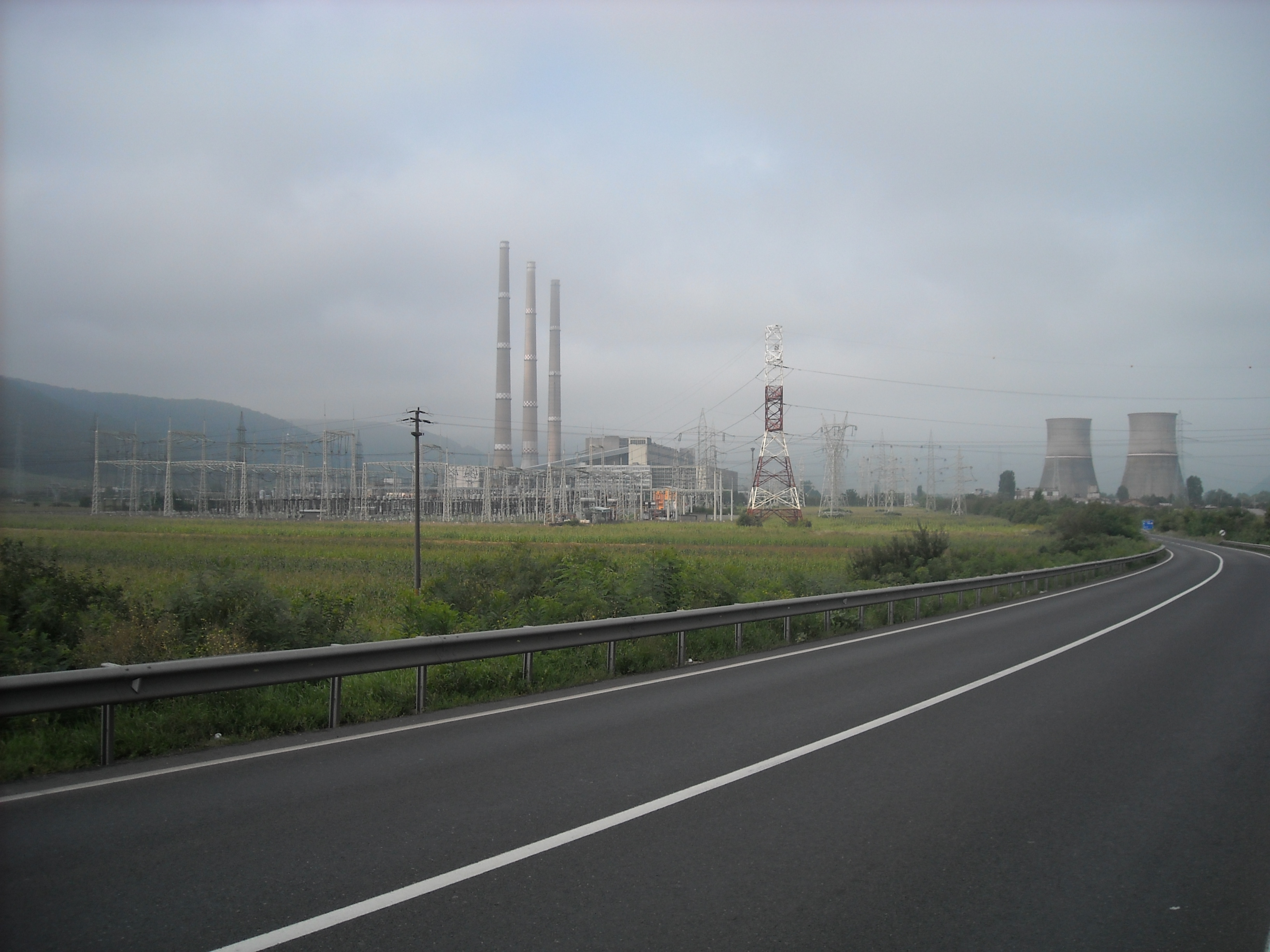 power plant near Mintia (Veţel commune), Romania